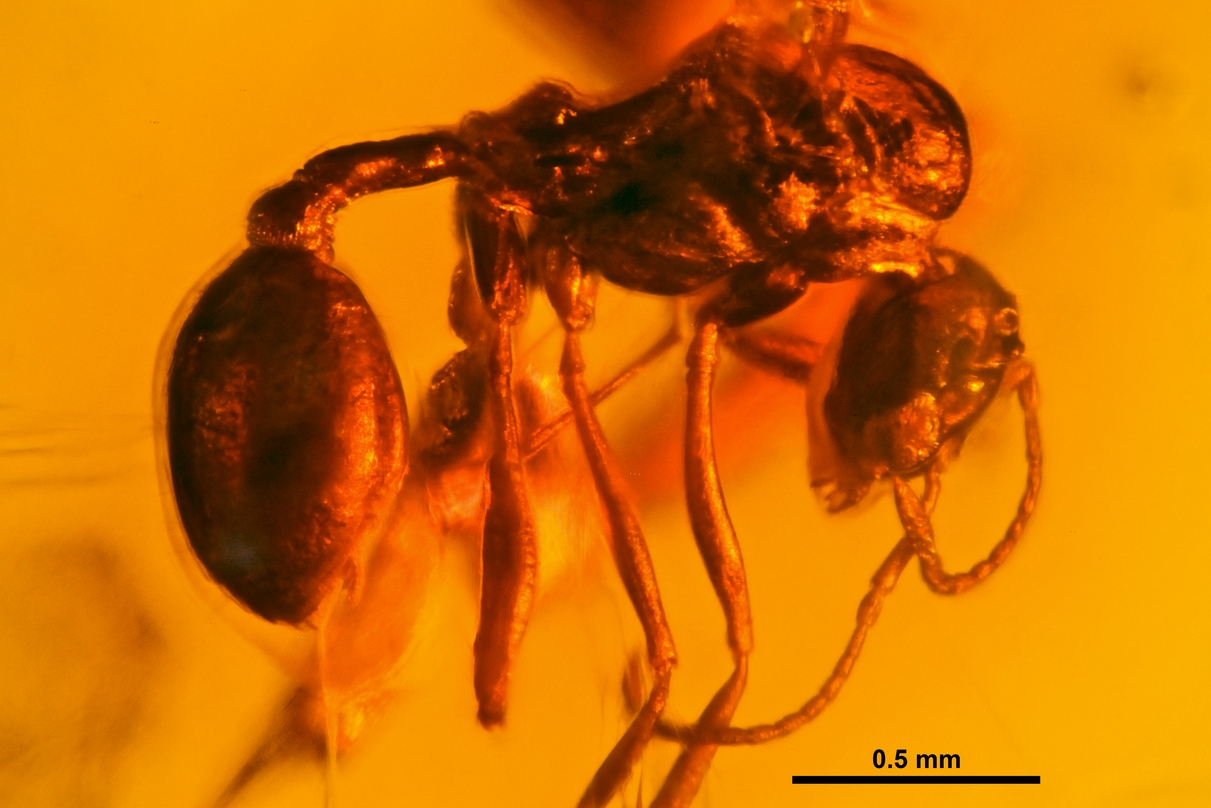 Profile view of the Stenamma berendti holotype male. Middle Eocene; Baltic amber, Samland Peninsula, Kalingrad, Russia Museum fur Naturkunde Berlin, Germany. Specimen MBIGB002